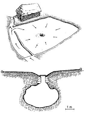 Chultun. This is used in the Puuc region of Yucatán in Mexico to store, all the year long, water collected during the rainy season.